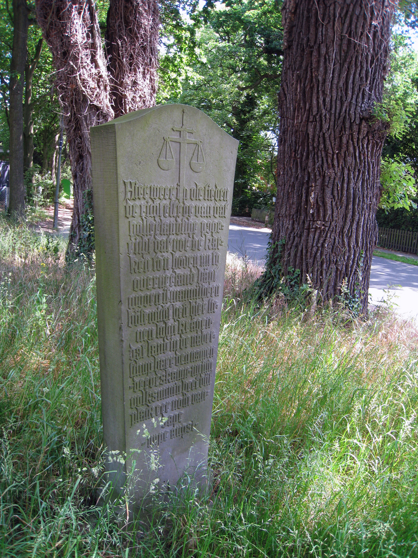 Memorial for the former meetingplace of the tribunal of the district Hollerland, called Uppe Angst, in Bremen Oberneuland (Germany). Errected 1955.